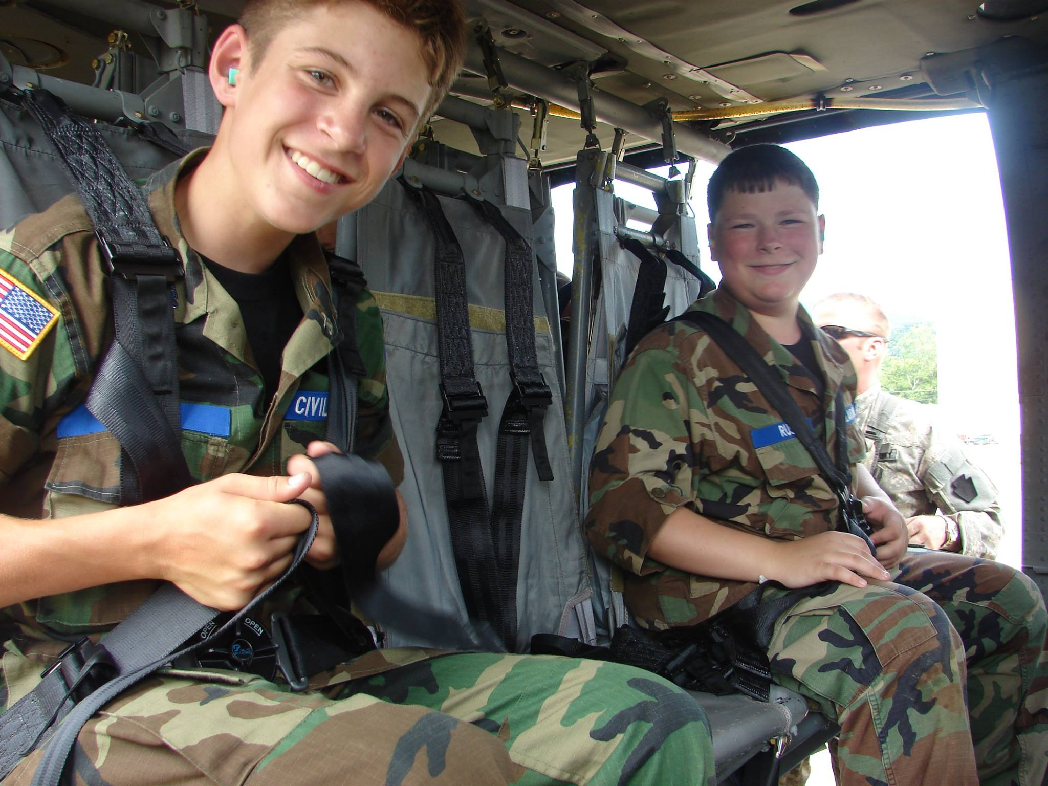 Civil Air Patrol cadets and senior members alike also frequently have the opportunity to visit Air Force facilities and experience flights in the service branch’s planes and helicopters. Many CAP squadrons meet, hangar their planes and fly out of Air Force bases; the organization’s National Headquarters is itself located at Maxwell Air Force Base, Alabama.